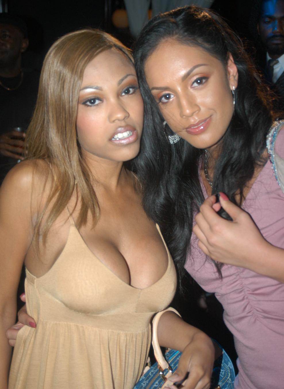 Lacey Duvalle and Ice La Fox